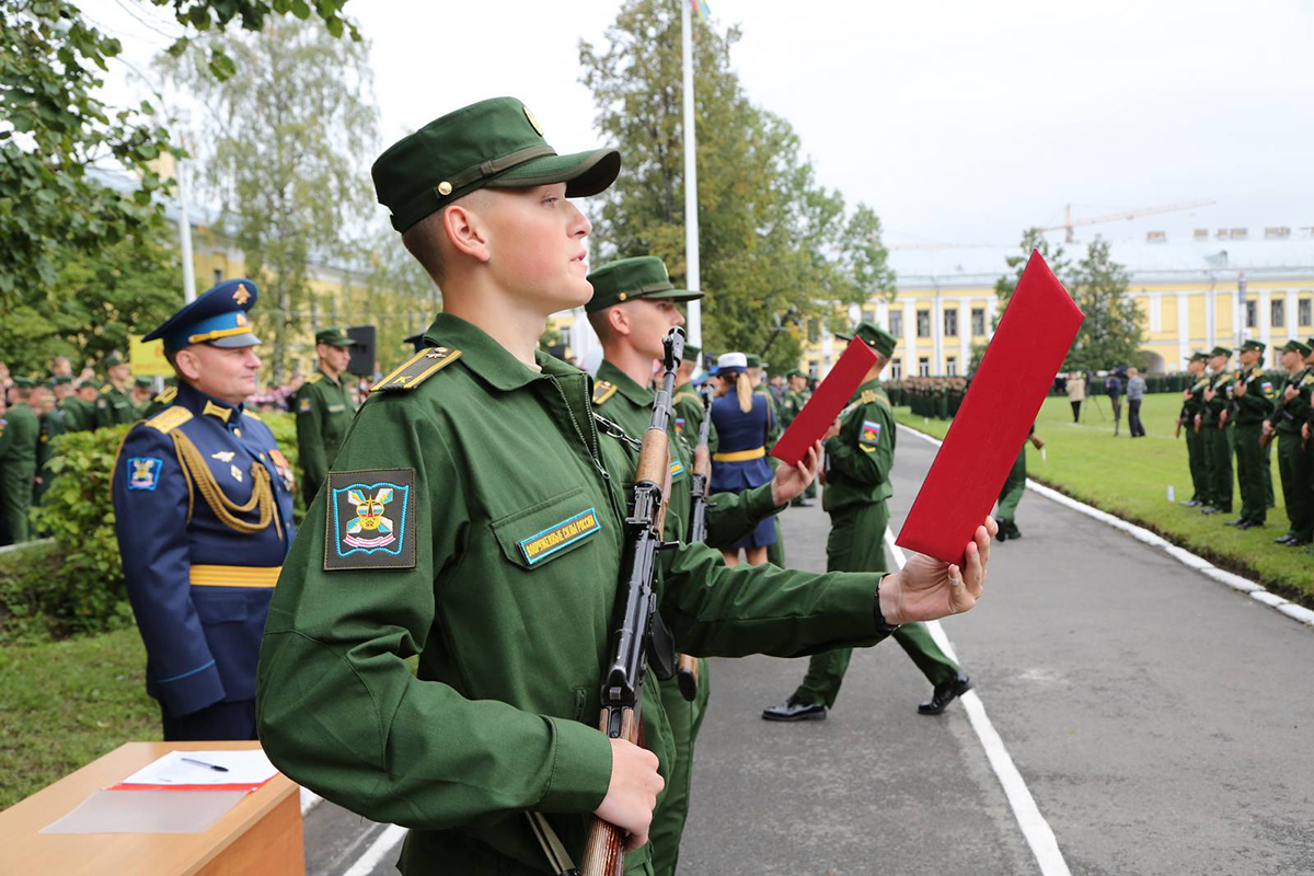 Military oath in the Mozhaisky Military Space Academy.